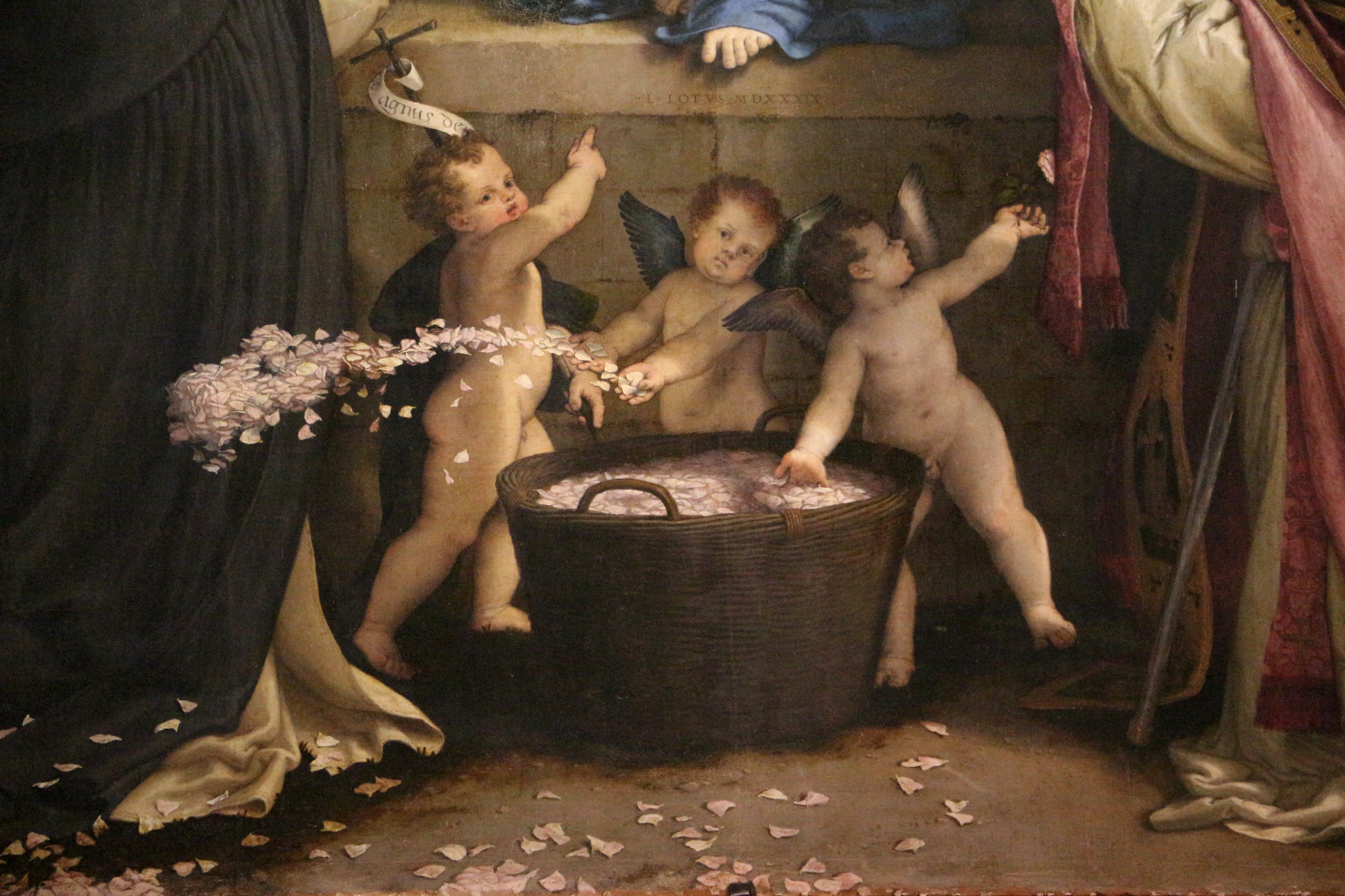 Cingoli